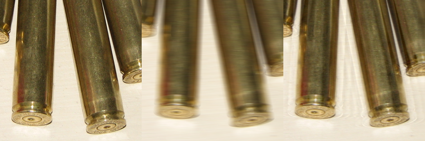 Image restoration (motion blur, Wiener filter). Deblured in GNU Octave. Blur parameters (length and angle) estimated by cepstral method. From left: original, blurred image and deblurred image.